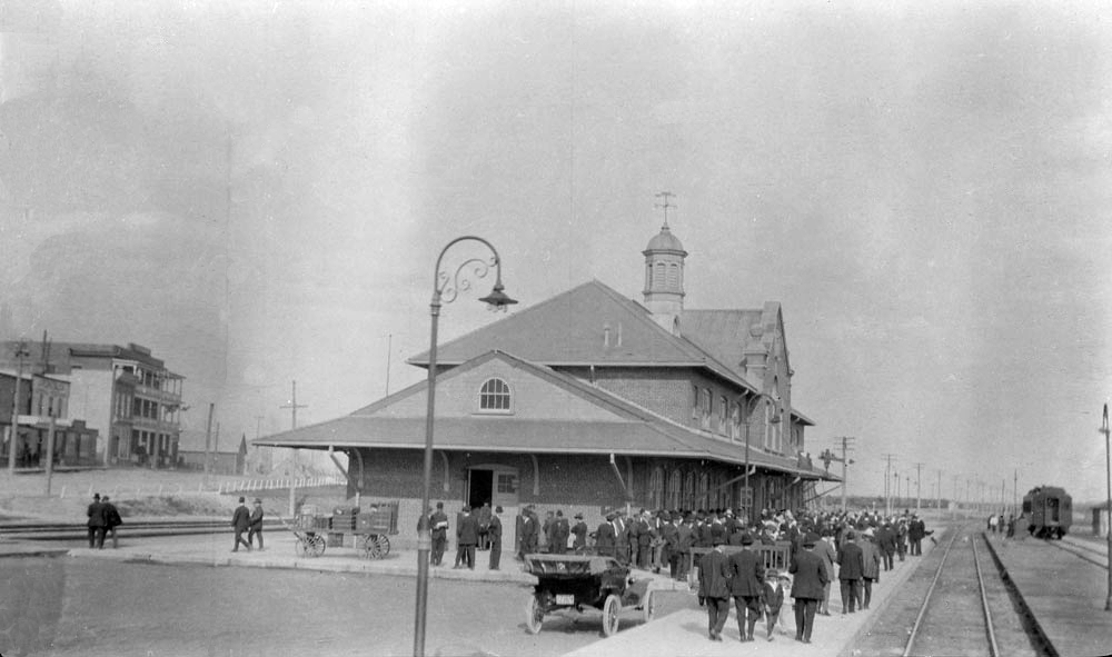 Railway Station, Cochrane, Ontario.